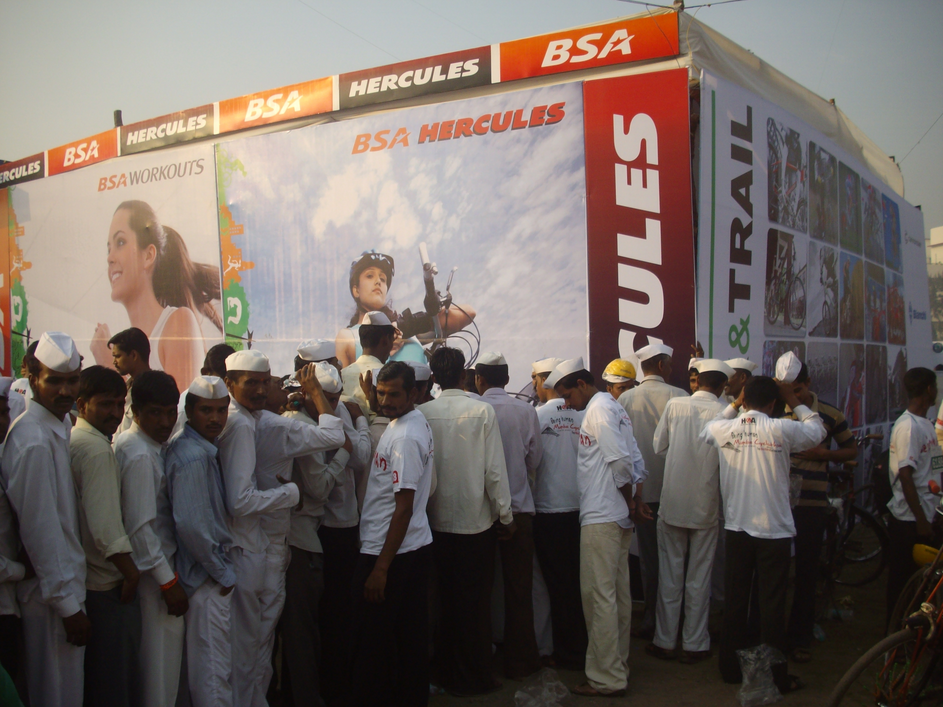 "Dabawala's" competing in "Mumbai Cyclothon-2010". Here they are queing to collect their "Safety Helmets" for the competition.